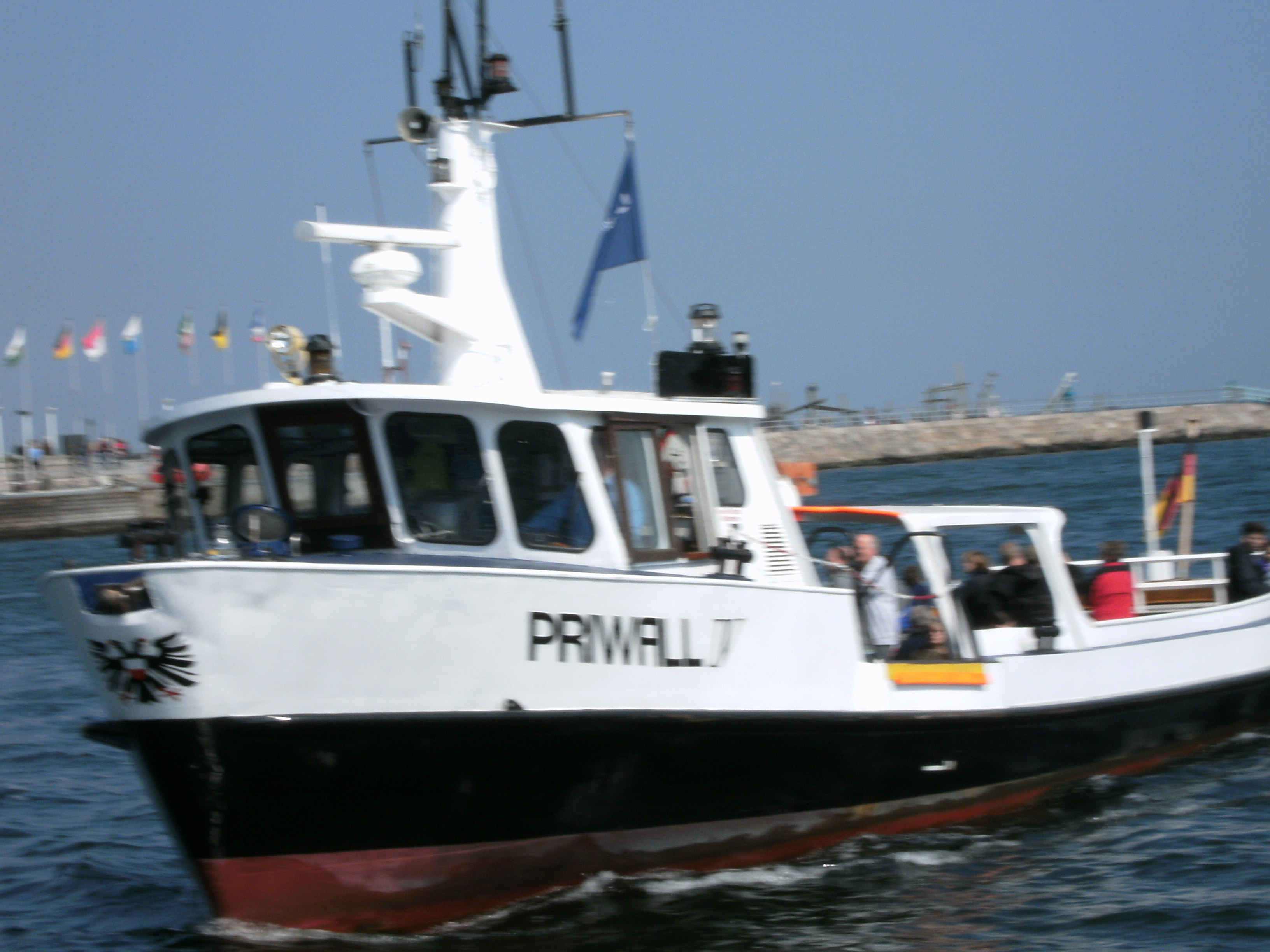 Small ferry for persons Priwall IV passing from Travemünde to Priwall in Germany.